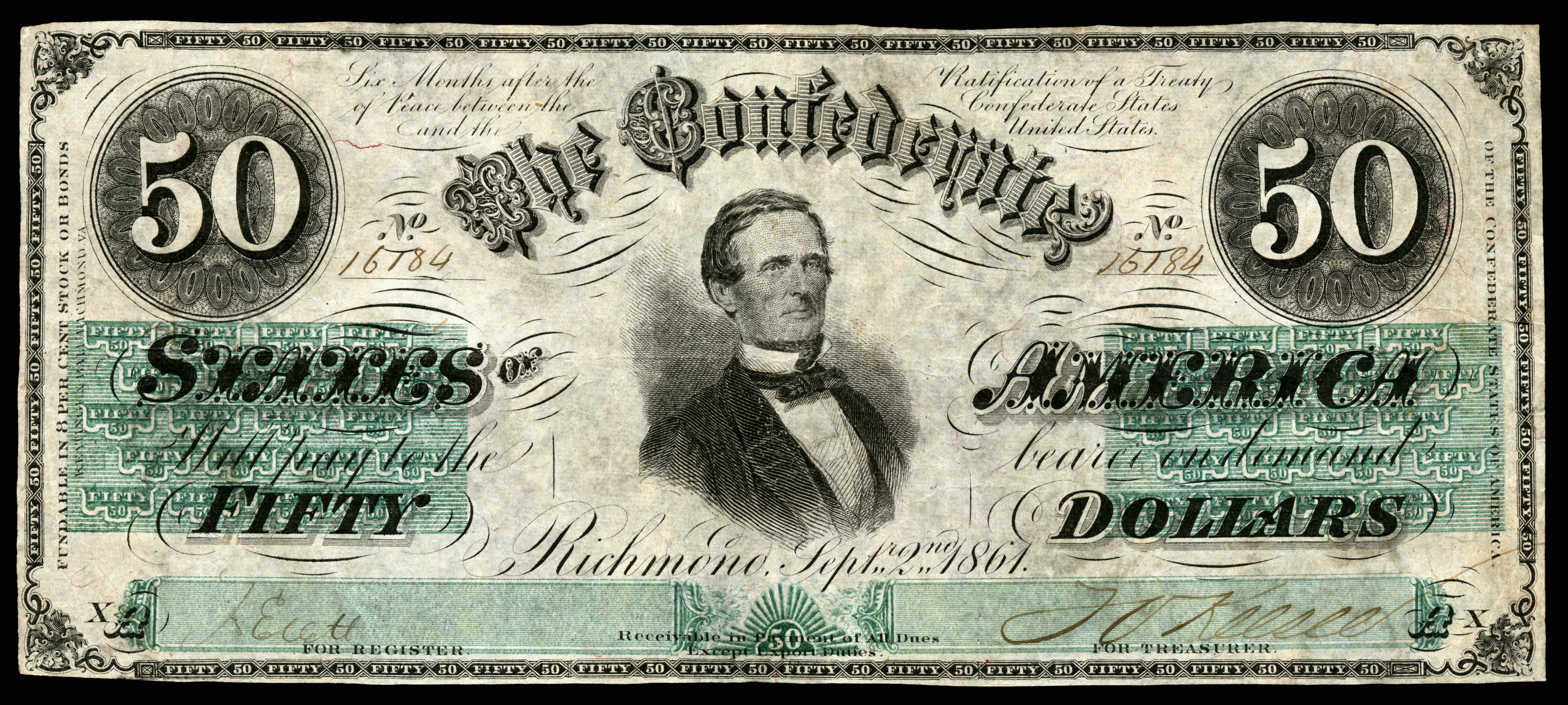 Third series $50 Confederate States of America banknote. Uniface. Portrait of Jefferson Davis.Third series (Act of August 19, 1861 amended December 24, 1861), funded by 8% bonds, payable six months after a ratified peace treaty, total authorized circulation $150,000,000. Between 1861–64 there were 72 different types issued with numerous varieties.